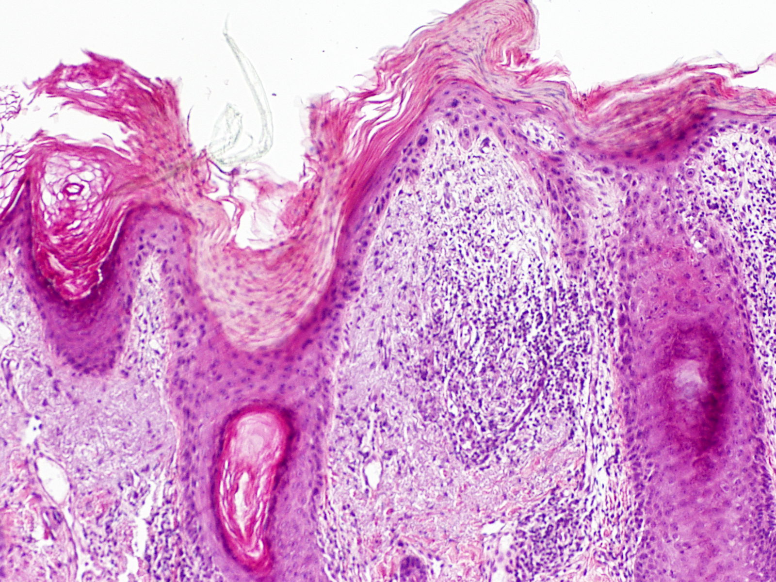 Actinic (solar) keratosis (magn. 4×)